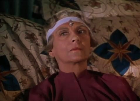 Mary Nash in Cobra Woman - trailer (cropped screenshot)